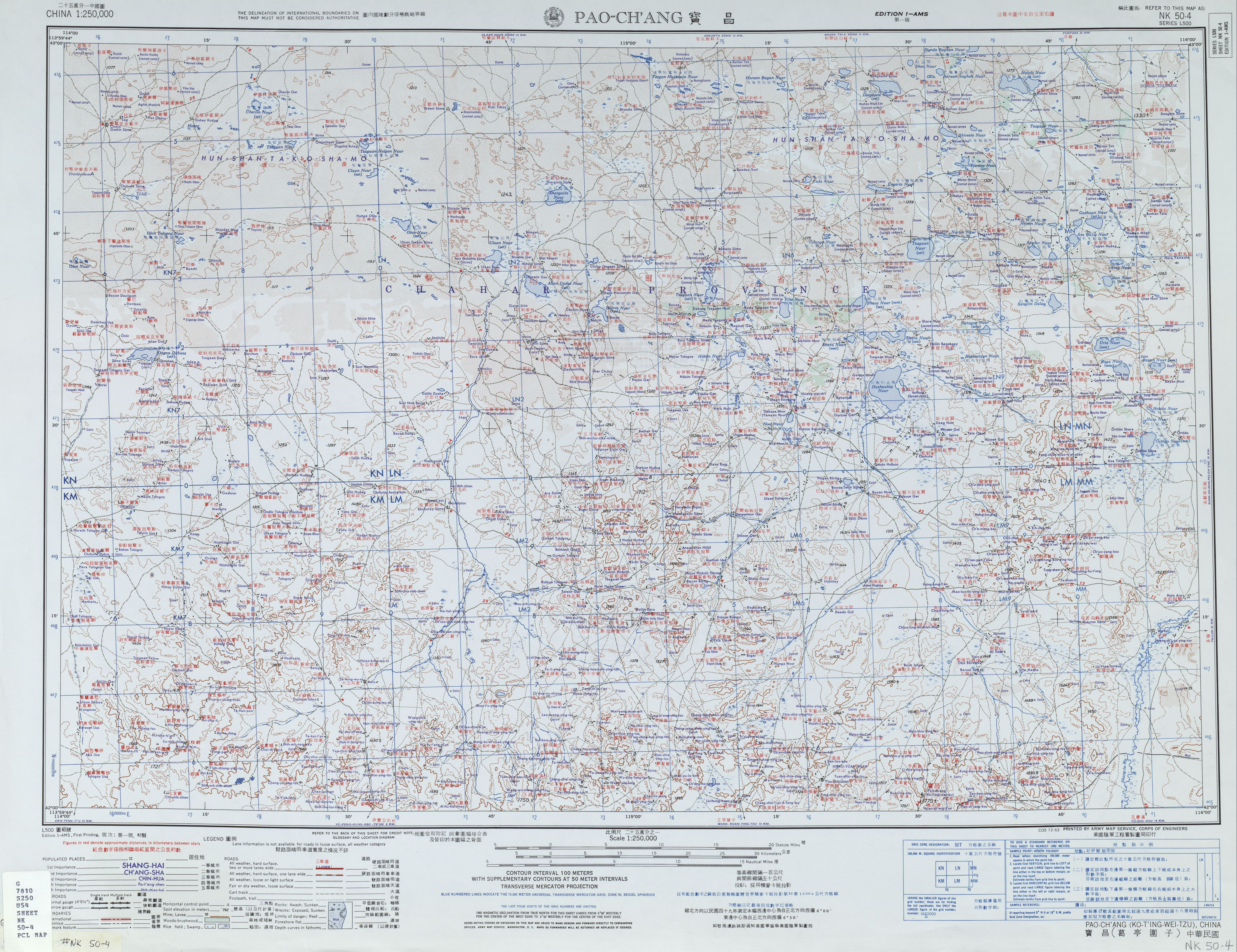 China AMS Topographic Maps series